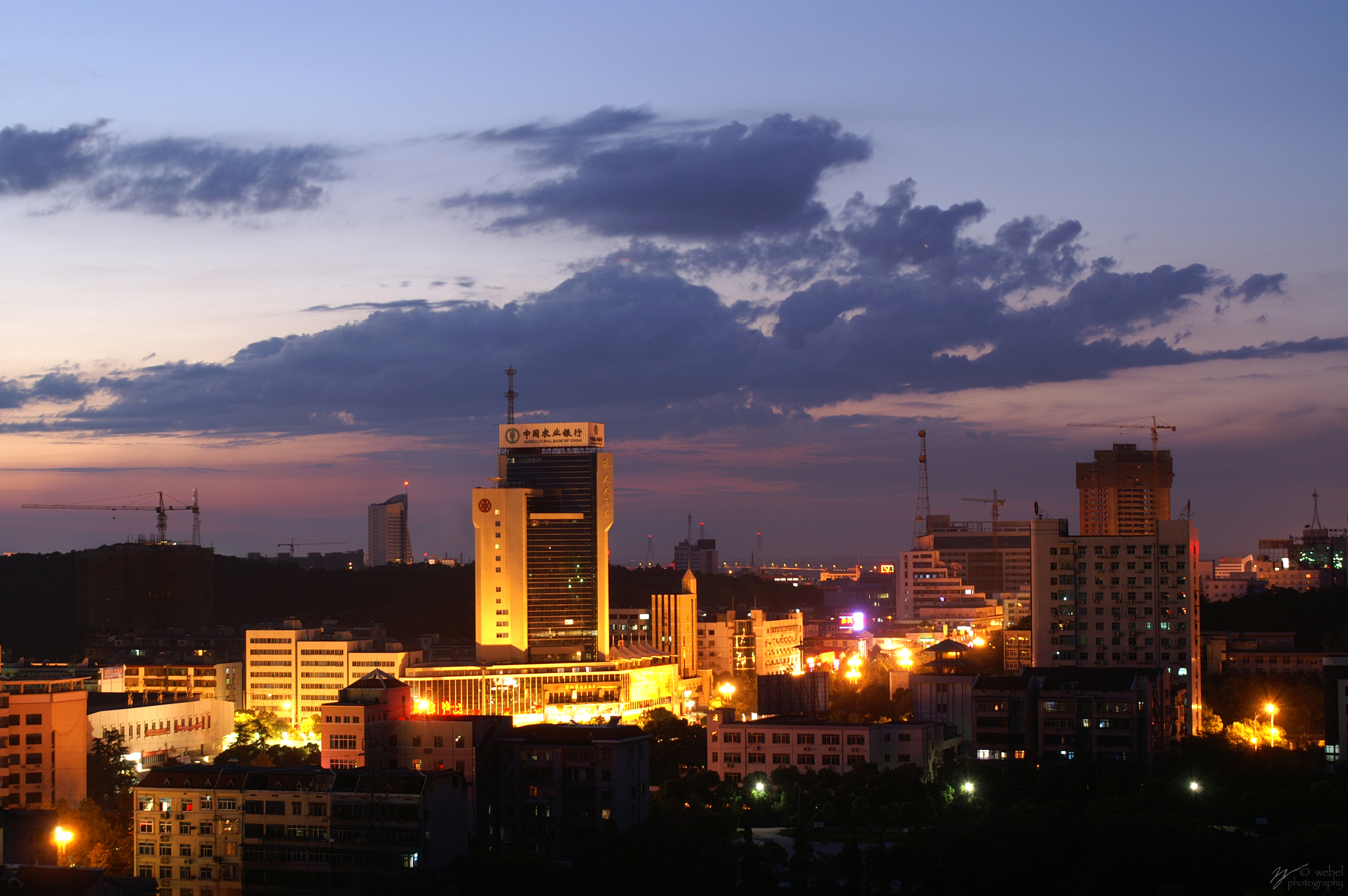 Yueyang, Hunan --- 3 Focal Length: 45 mm ISO Speed: 100 Exposure Bias: 0/10 EV Flash: Flash did not fire